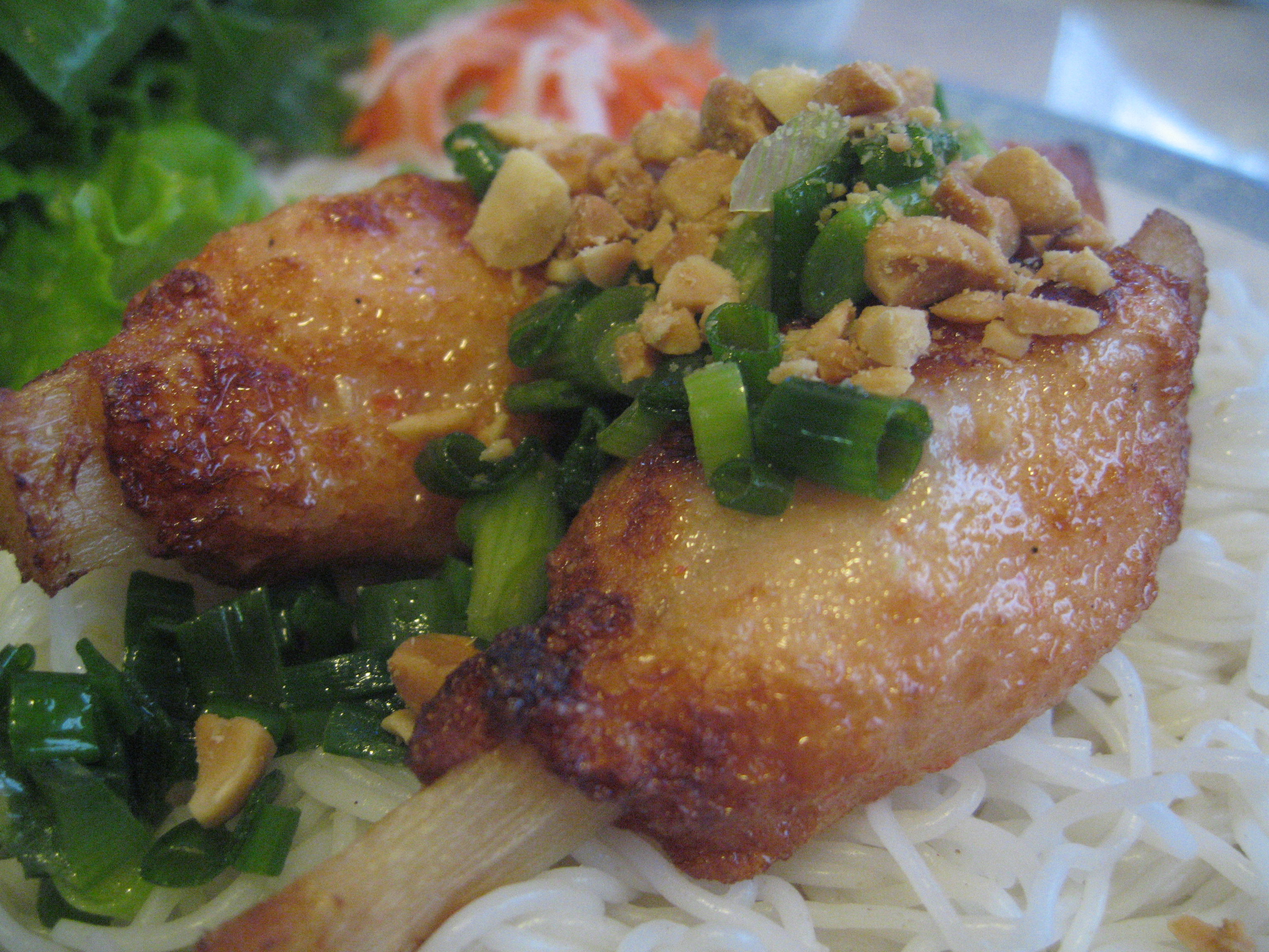 Ground shrimp wrapped around sugar cane and then grilled. It's meant to be taken off of its sugar cane skewer and added, along with the onions, noodles and peanuts, into a spring roll that you roll yourself. @ Pho Dalat